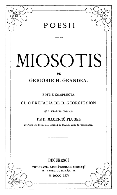 First page of the book Poesii - Miosotis by Gr. H. Grandea, Tipografia Lucrătorilor Asociaţi, Bucharest, 1865